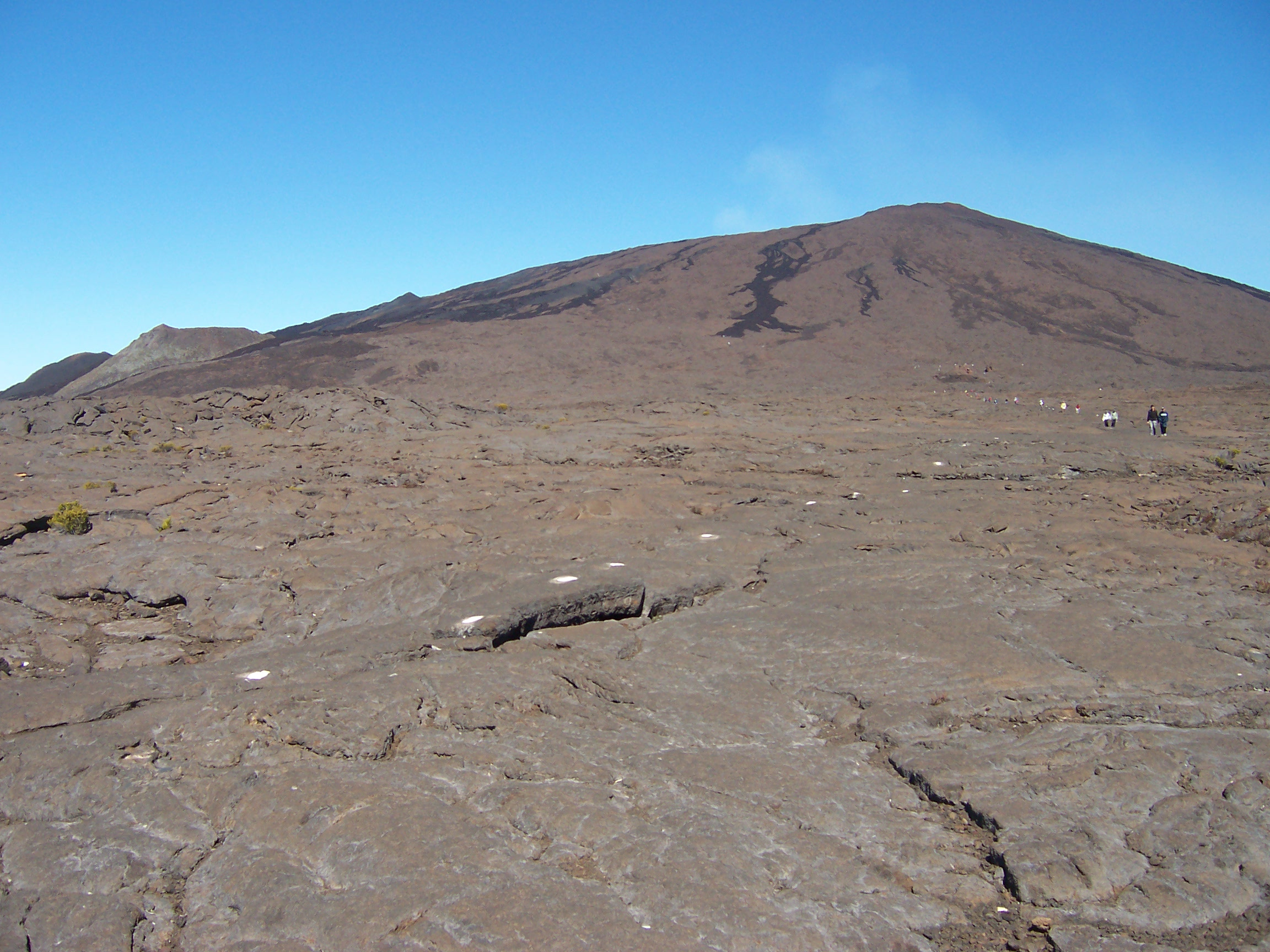 The path to the Piton de la Fournaise summit (Réunion island) (the light smoke above the summit is from the eruption that has begun on 30 August 2006)